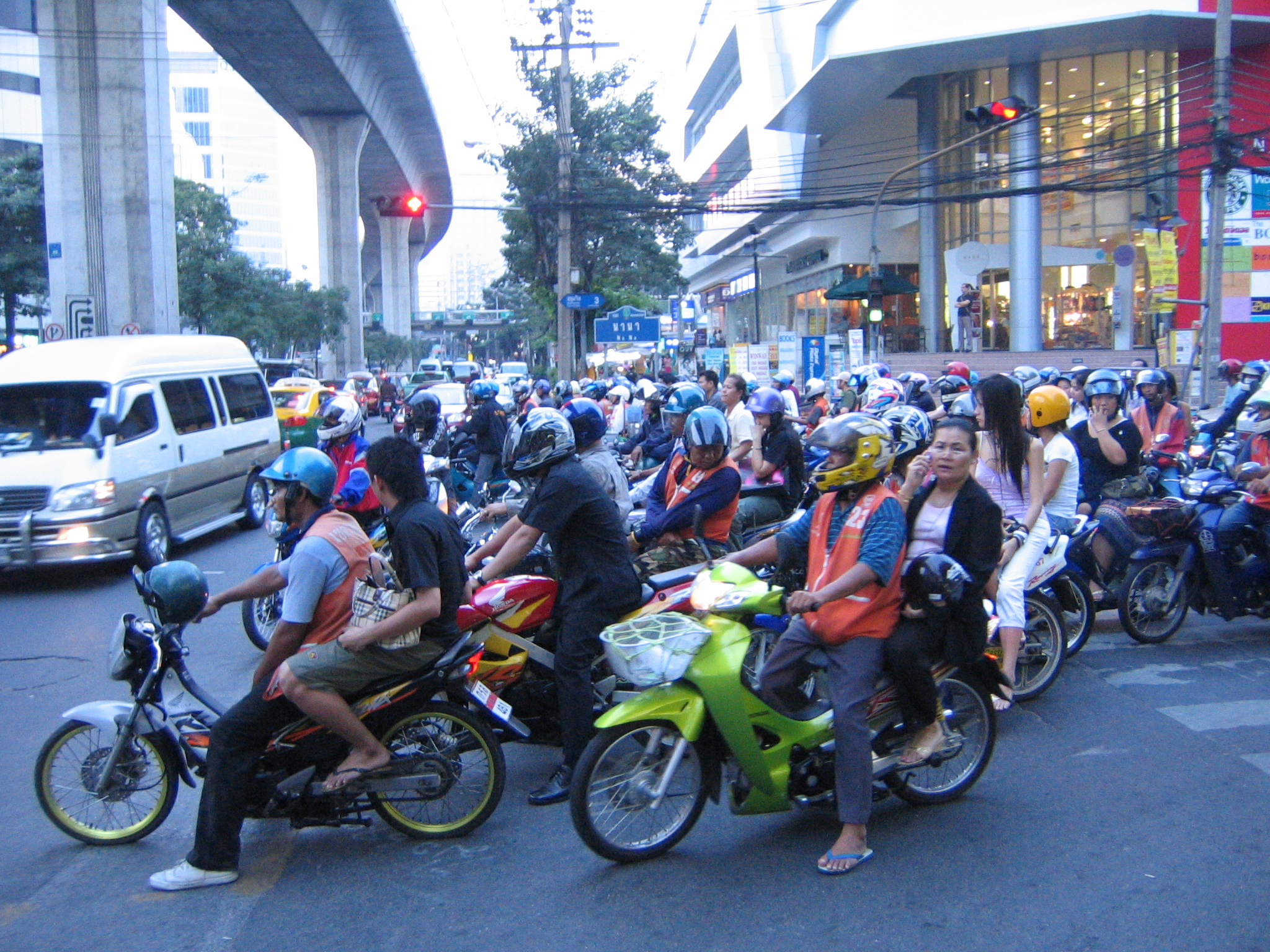 Sukhumvit Soi 4/3 (Nana) intersection in Bangkok with scooters and motorcycles.